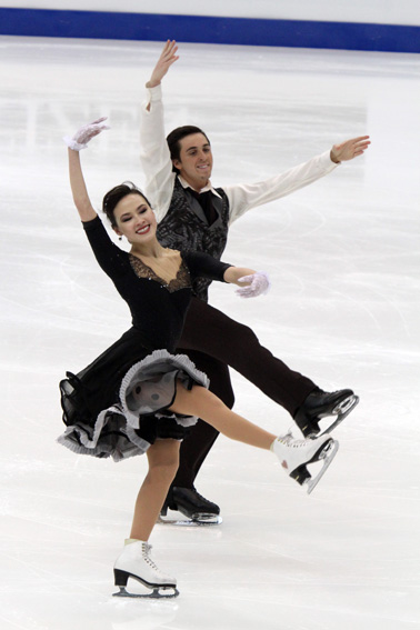 Madison Chock and Greg Zuerlein at the 2011 Four Continents Championships.